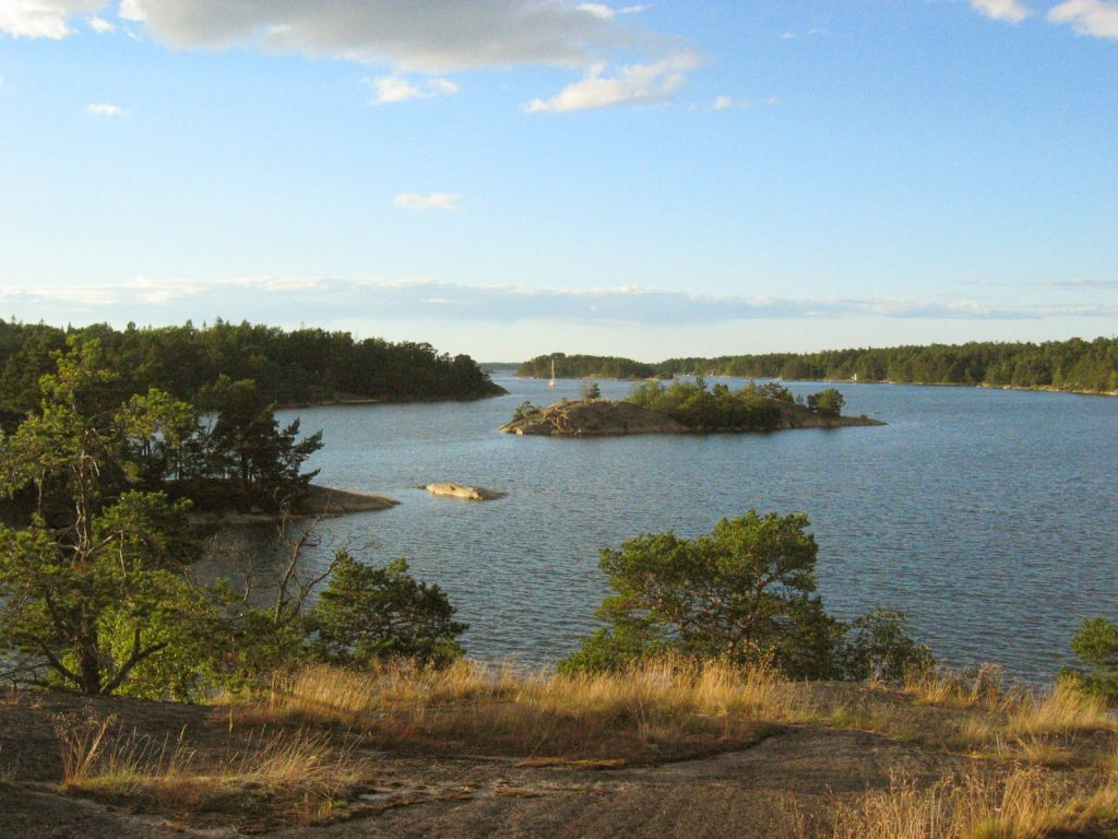 The strait between Hemö-Bockö (left) and Lökaö (right), in the Storö-Bockö-Lökaö nature reserve, east of Möja, Stockholm archipelago, Sweden.